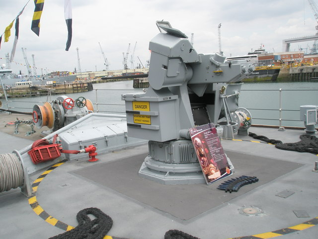 Noticeboard on board HMS Hurworth